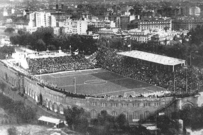 Italian postcard of the 1930s representing the Stadio Nazionale (National Stadium) in Rome, circa 1930s. At the time the stadium was called Stadio del Partito Nationale Fascista (National Fascist Party Stadium). Later it got back to its original name and informally nicknamed Stadio Torino. In 1957 it was demolished and replaced by the Stadio Flaminio.